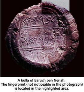 Bulla of Berachyahu ben Neriah the Scribe, with a fingerprint in the upper right corner